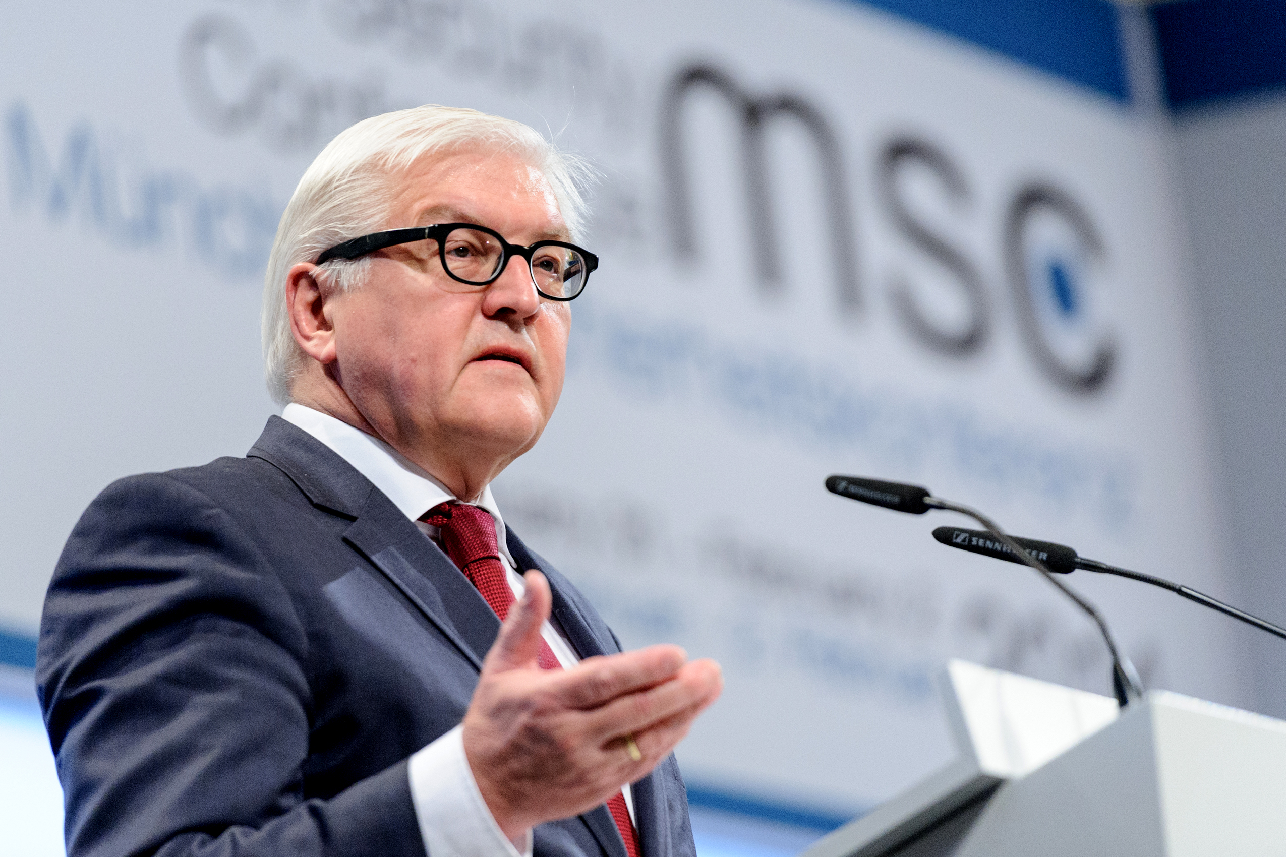 50th Munich Security Conference 2014: Frank-Walter Steinmeier: Frank-Walter Steinmeier (Federal Minister of Foreign Affairs, Federal Republic of Germany).